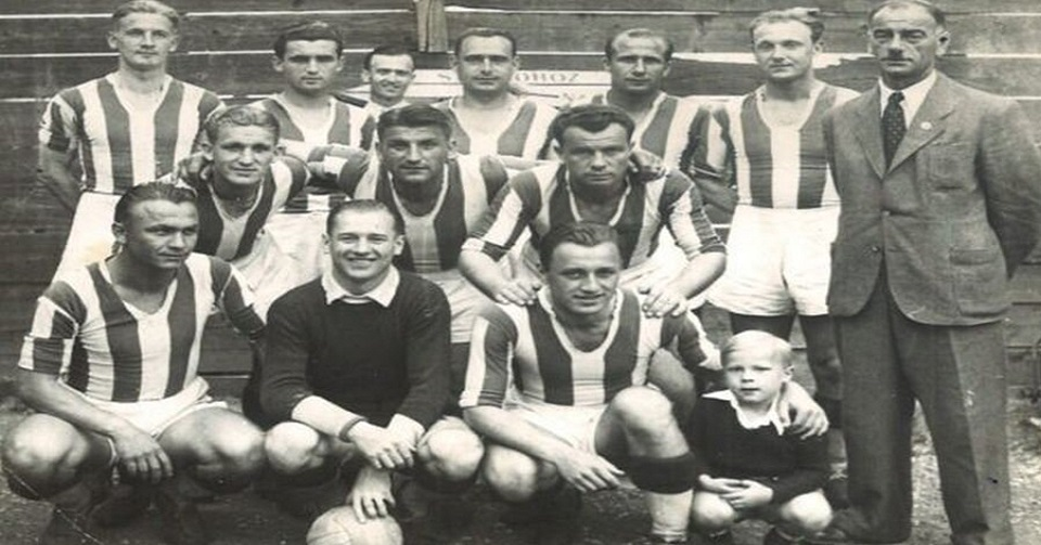 CA Oradea 1943-44 squad, champions of Hungary.